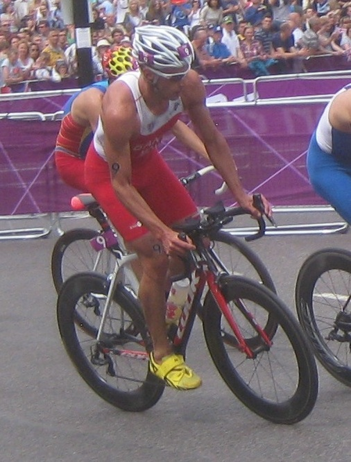 Hervé Banti from Monaco during the 2012 Summer Olympics triathlon.